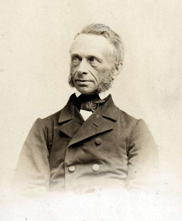 Bernhard August Prestinari (* 9. December 1811 at Bruchsal; † 1. March 1893 at Karlsruhe) was a lawyer, a director of the Katholischer Oberkirchenrat at Karlsruhe, president of th court at Konstanz as well as a Member of both Hauses of the Parliament of Baden. The Picture shows as detail out of the dicital available picture of the stock of pictures of the Members of the Parliament of Baden. This image was catalogued by Generallandesarchiv Karlsruhe of the Landesarchiv Baden-Württemberg under ID: 4-1384573-1. This tag does not indicate the copyright status of the attached work. A normal copyright tag is still required. See Commons:Licensing. Deutsch | English | +/−